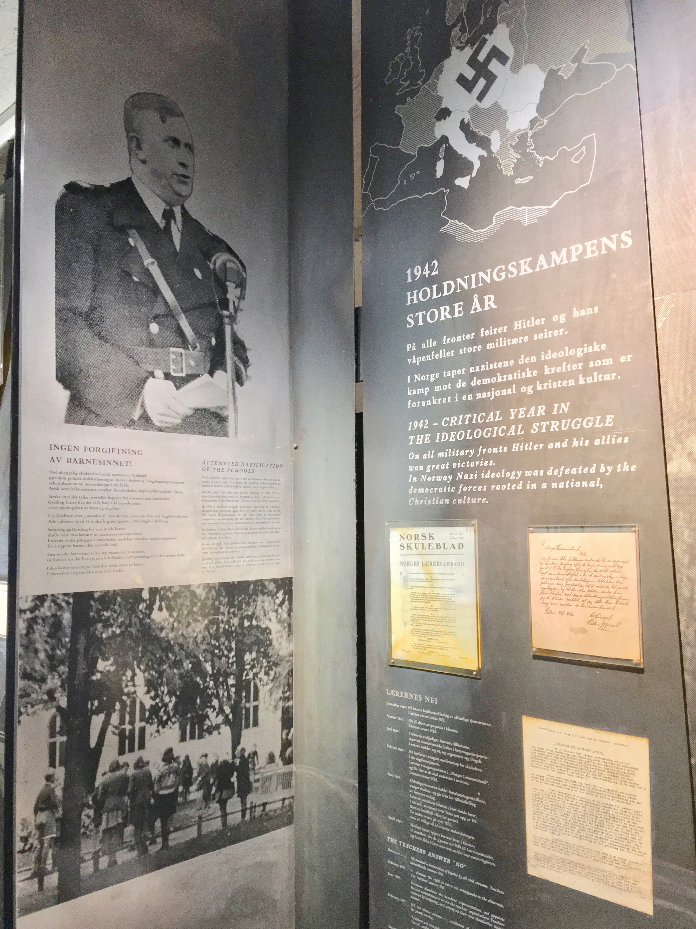 1942 – The critical year in ideological struggle (1942, holdningskampens store år og lærernes nei). Portrait of Orvar Sæther, leader of Norges Lærersamband, the fascist party Nasjonal Samling's mandatory teacher's union in Norway 1942–1945. Photo taken on 2017-11-30 at the exhibition of Norway's WW2 Resistance Museum (Hjemmefrontmuseet) at Akershus fortress in Oslo, Norway.